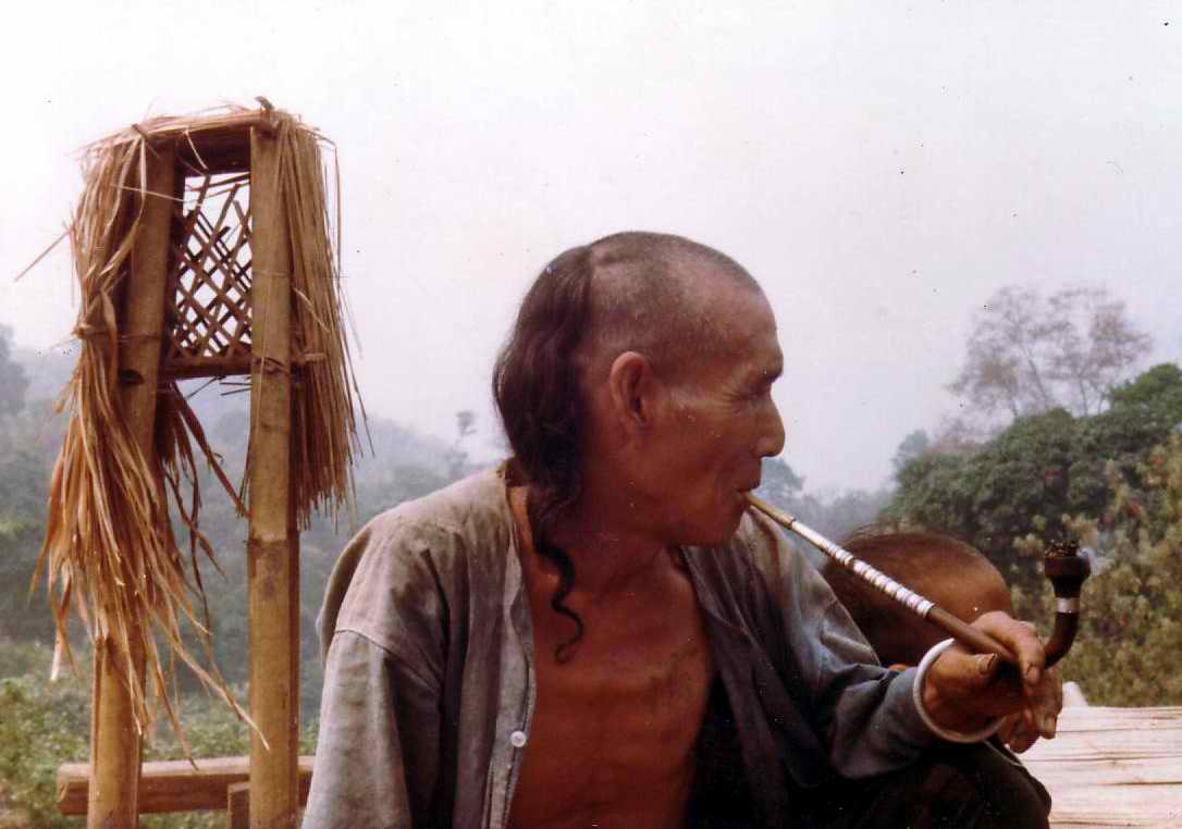 I, John Hill, took this photo in 1979. 02:02, 17 February 2005 John Hill 1086x762 (54575 bytes) (I, John Hill, took this photo in 1979.)